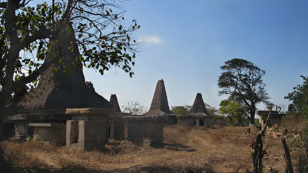 Houses of Wainyapu, Kodi. This village can be seen from Ratenggaro but they separated by the sea. You can across the sea by foot.